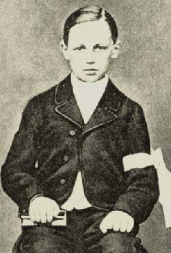 French poet Arthur Rimbaud at the time of his First Communion, age 11 (cropped version of photo)